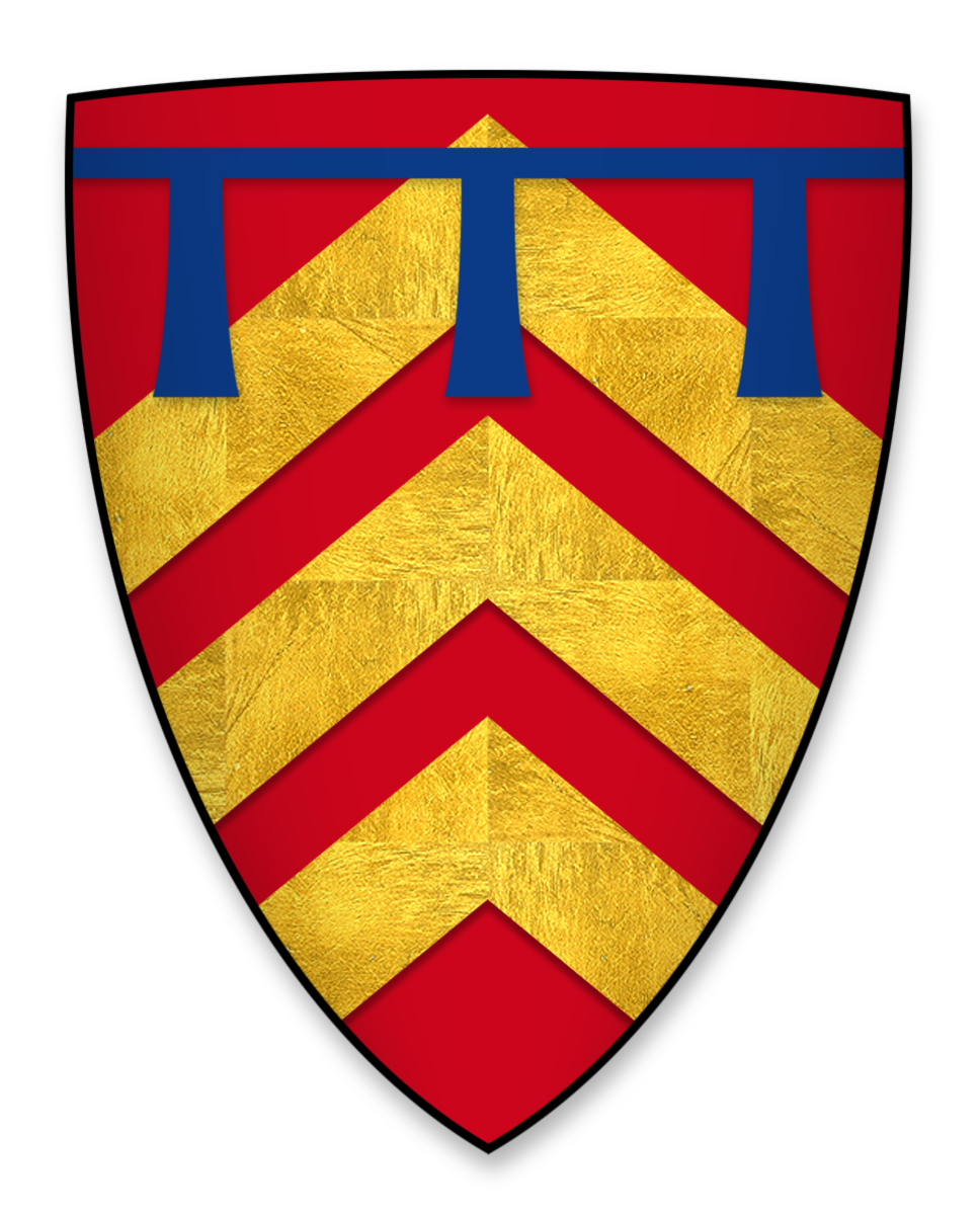 Coat of arms of Richard de Montfichet, Baron. This coa is Gules 3 chevrons or a label of 3 points azure. Note that the coa of Richard de Montfichet as depicted by Matthew Paris (Book of Additions) is shown as Or 3 chevrons gules a label of 5 points azure.